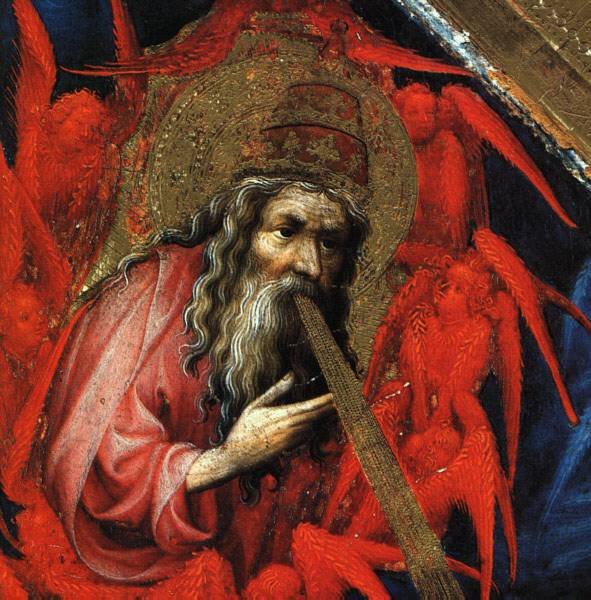 detail: The Divine Breath